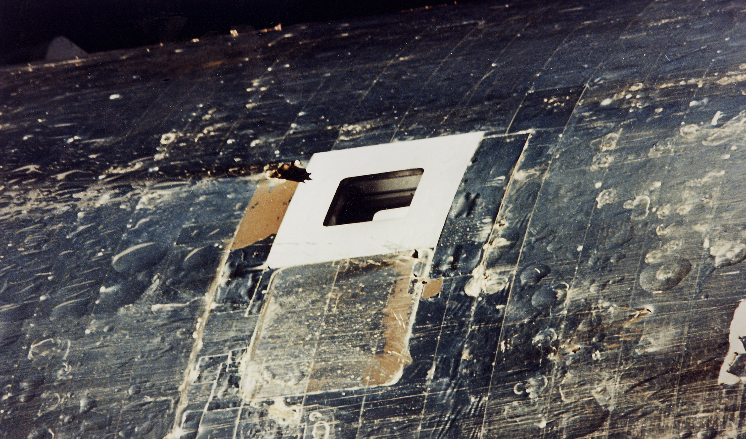 Damaged Exterior of the Skylab Orbital Workshop The Saturn V vehicle, carrying the unmarned orbital workshop for the Skylab-1 mission, lifted off successfully and all systems performed normally. Sixty-three seconds into flight, engineers in the operation support and control center saw an unexpected telemetry indication that signalled that damages occurred on one solar array and the micrometeoroid shield during the launch. The micrometeoroid shield, a thin protective cylinder surrounding the workshop protecting it from tiny space particles and the sun's scorching heat, ripped loose from its position around the workshop. This caused the loss of one solar wing and jammed the other. Still unoccupied, the Skylab was stricken with the loss of the heat shield and sunlight beat mercilessly on the lab's sensitive skin. Internal temperatures soared, rendering the the station uninhabitable, threatening foods, medicines, films, and experiments. This image shows the sun-ravaged skin of the Orbital Workshop, bared by the missing heat shield, with blister scars and tarnish from temperatures that reached 300 degrees F. The rectangular opening at the upper center is the scientific airlock through which the parasol to protect the workshop from sun's rays was later deployed. This view was taken during a fly-around inspection by the Skylab-2 crew. The Marshall Space Flight Center had a major role in developing the procedures to repair the damaged Skylab.